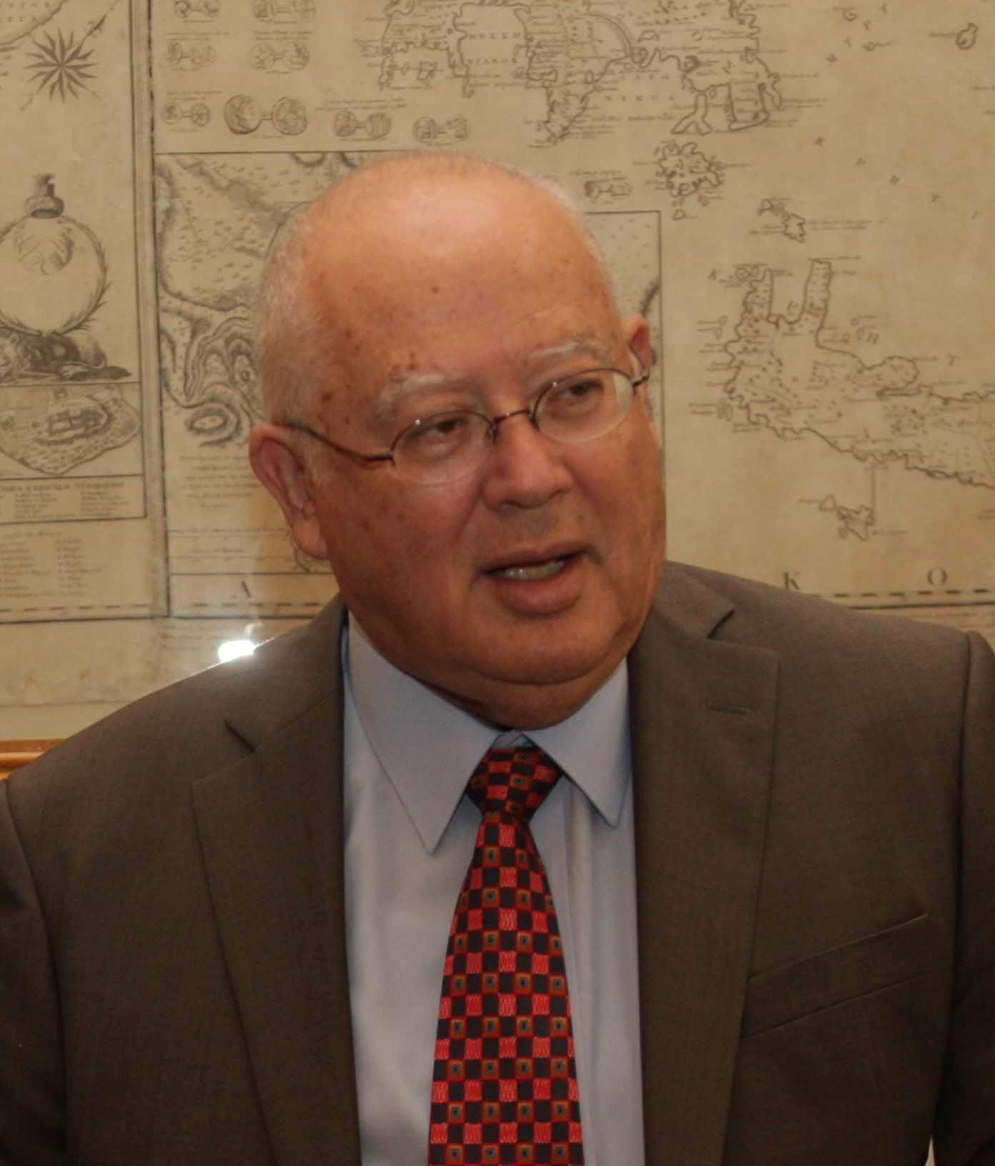 Arye Mekel, Ambassador of Israel to Greece pictured during a meeting with Greek Deputy Prime Minister and Foreign Minister Evangelos Venizelos (not shown) at the Foreign Ministry in Greece.